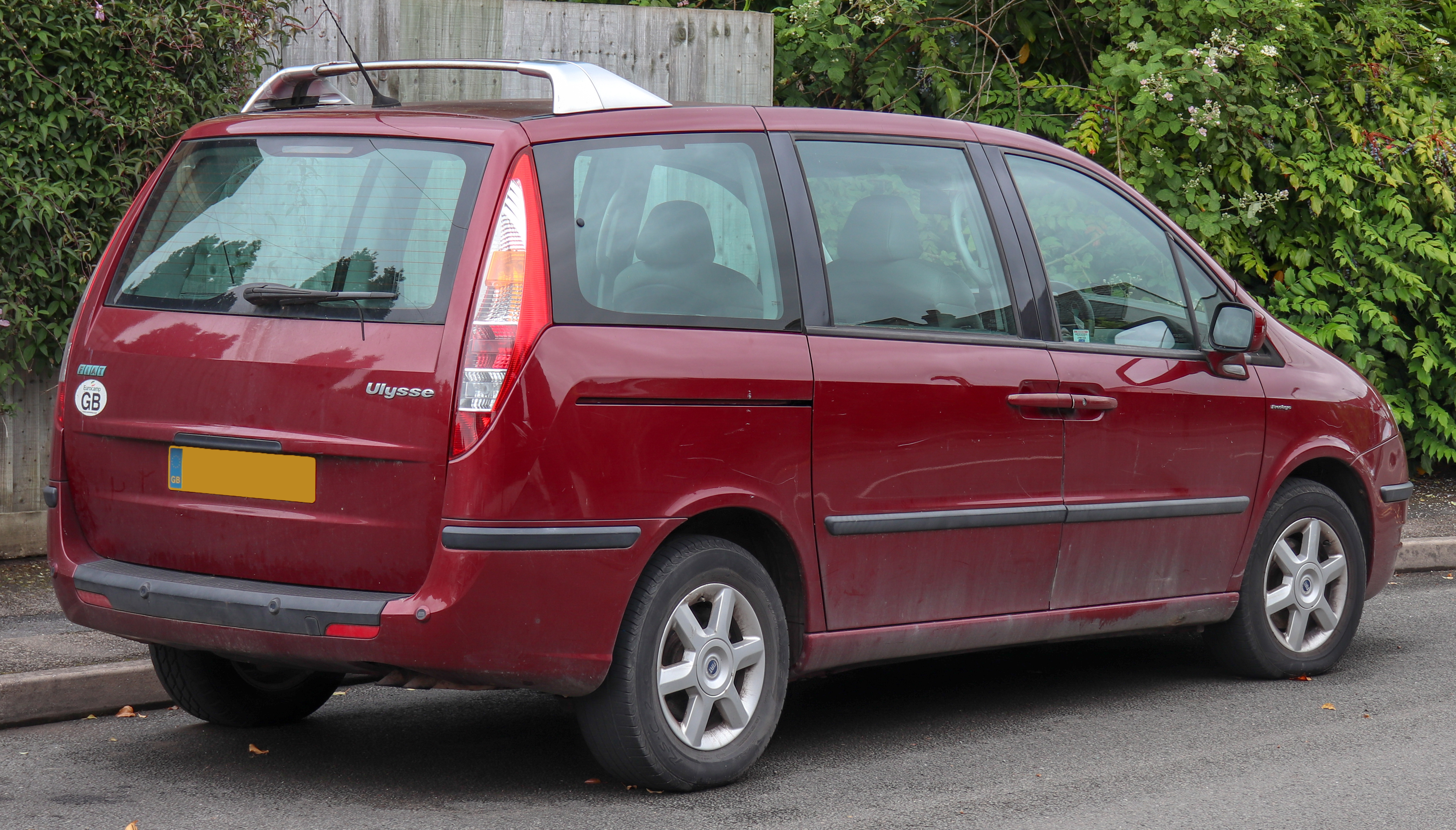 2004 Fiat Ulysse Prestigio JTD 16V 2.2 Rear Taken in Warwick